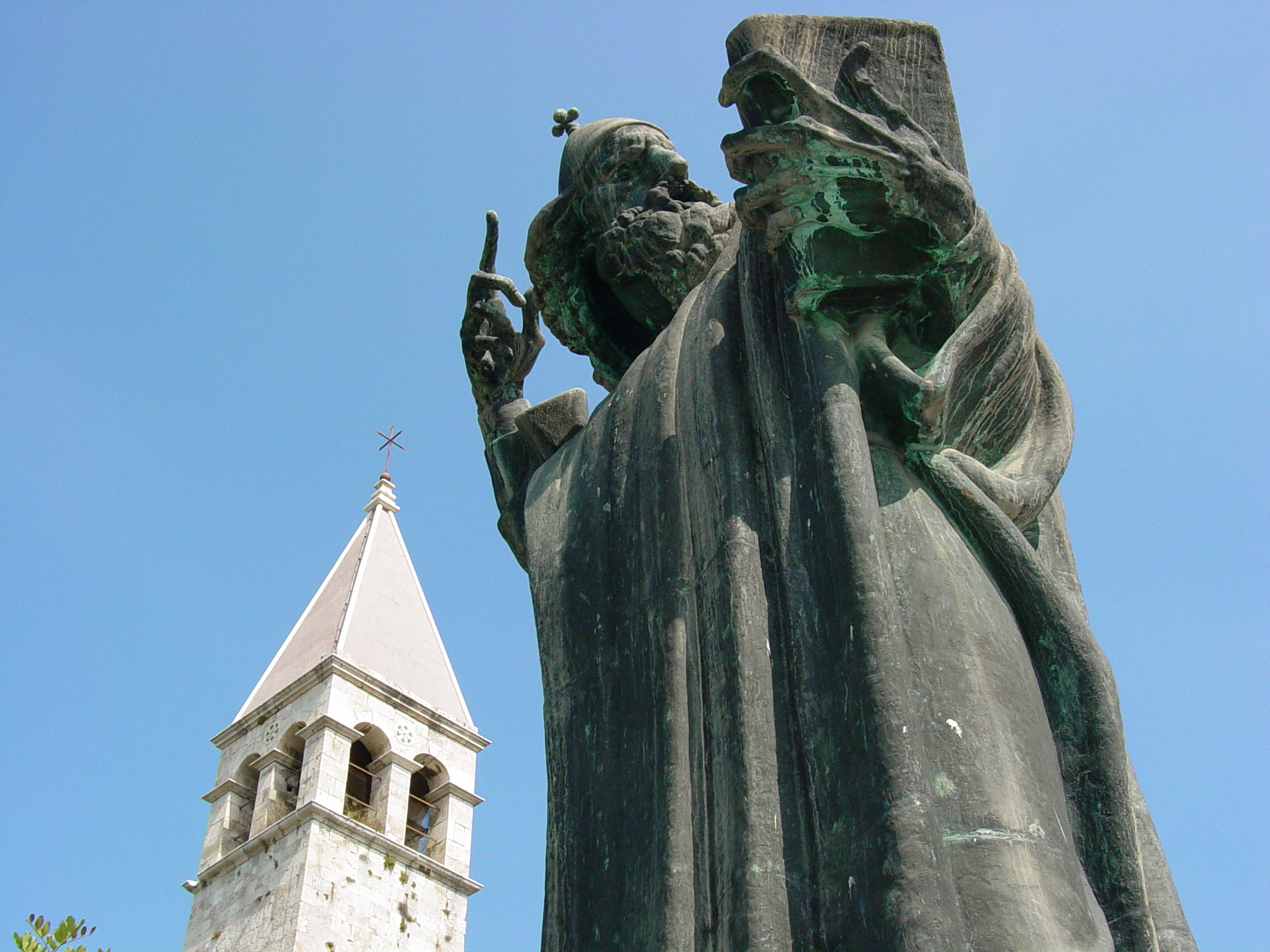 Sculpture by Ivan Mestrovic of Gregorius of Nin (Grgur Ninski), a 10th-century Croatian bishop who fought to use the national language in his services. The corner tower of Diocletian's palace is in the background. Split, Croatia. June 2004.